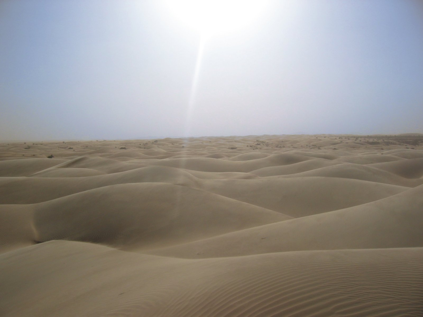 Sun over sahara desert